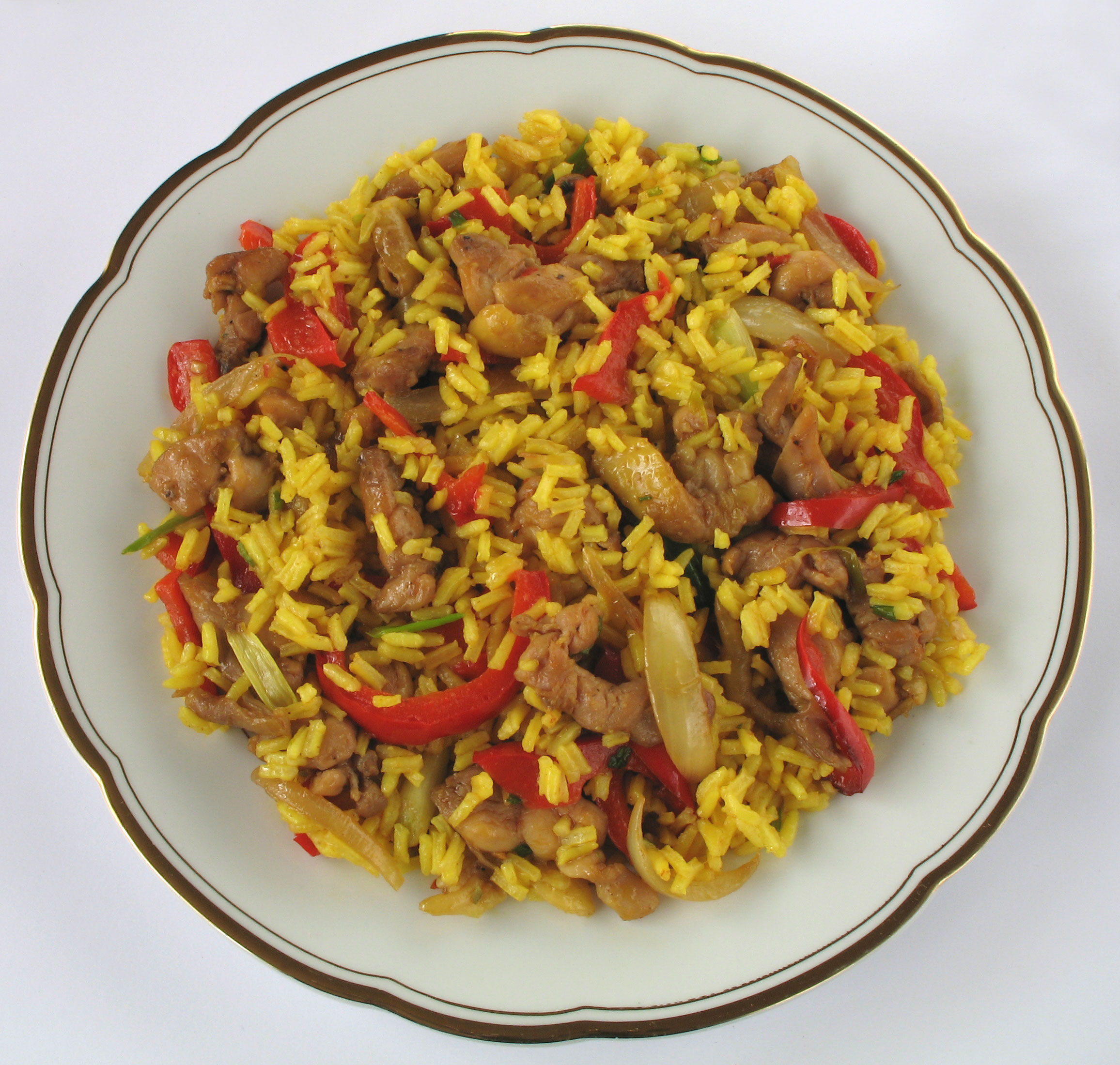 Nasi Goreng (Indonesian food; home cooking in Austria)